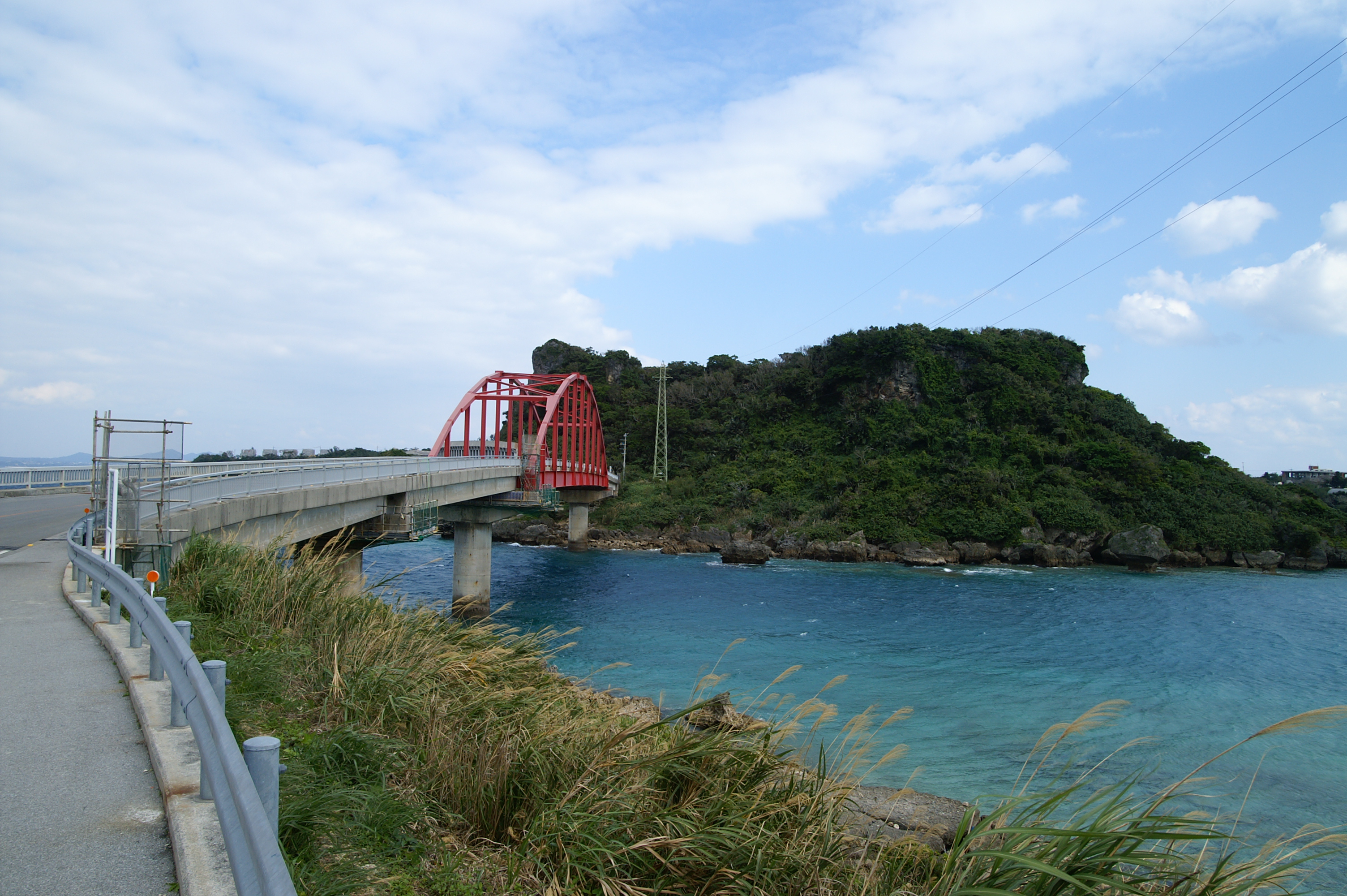 Ikei Ōhashi bridge which connects Miyagi Island (before) and Ikei Island (away). Administratively both belong to Uruma, Okinawa, Japan.